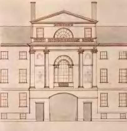 Central Pavilion, Tontine Crescent, 1793-1794, by Charles Bulfinch